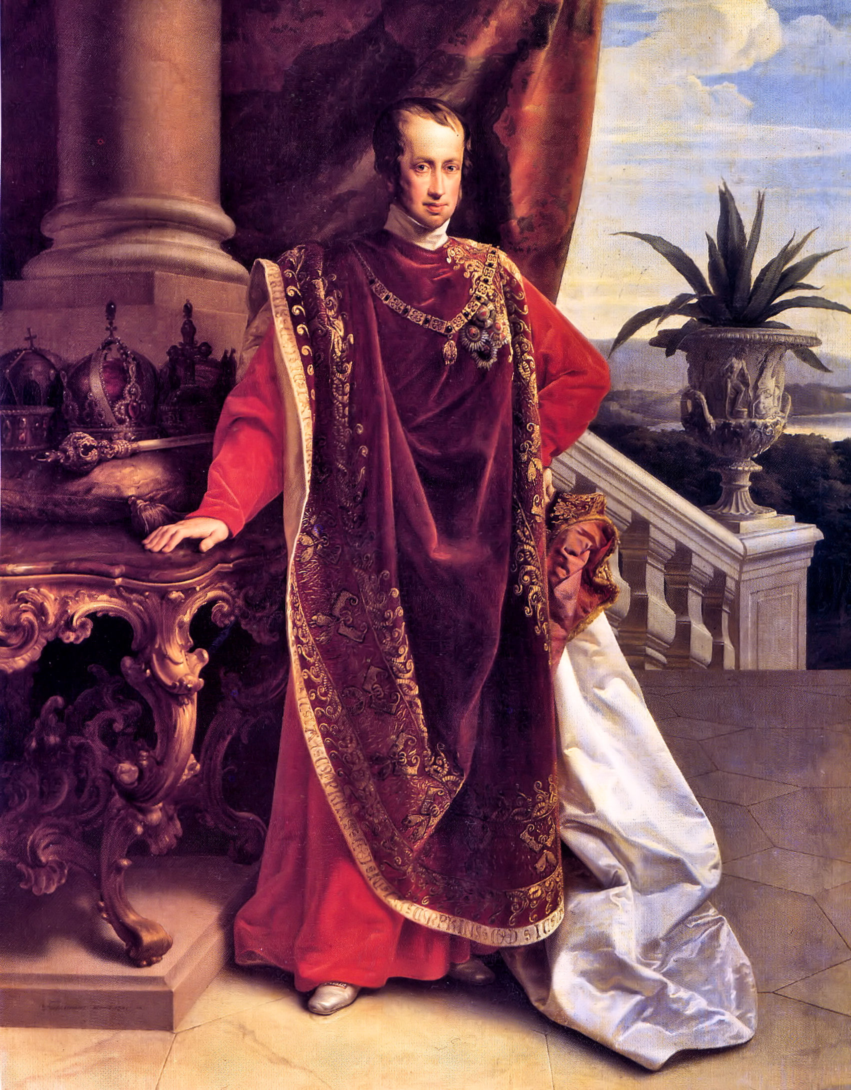 Portrait of Emperor Ferdinand I in ceremonial robe of Order of the Golden Fleece